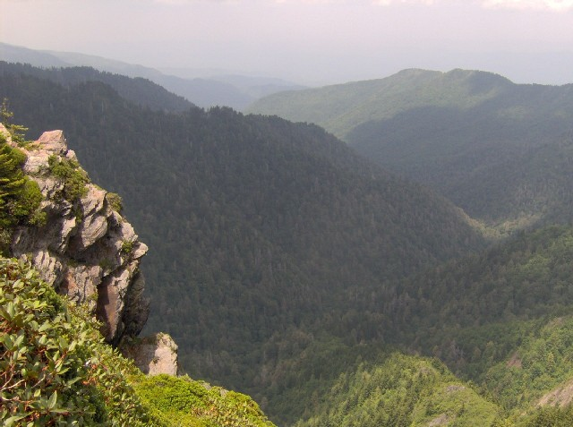 The view looking northeast from Charlies Bunion, located in the Great Smoky Mountains of Tennessee and North Carolina. Porters Creek Valley, part of the Middle Fork of the Little Pigeon River watershed, is below.